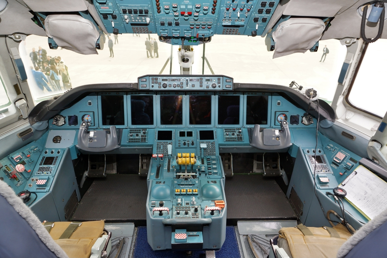 Cockpit of Antonov An-70